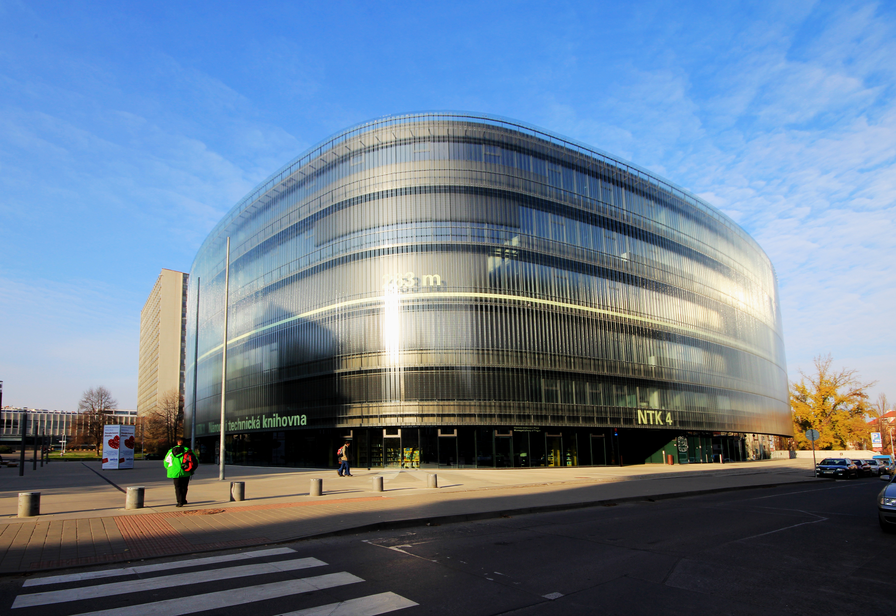 Building of Czech National Technical Library, Place of meeteing Czech Wikipedia 2012 in Dejvice, Prague, Czech Republic